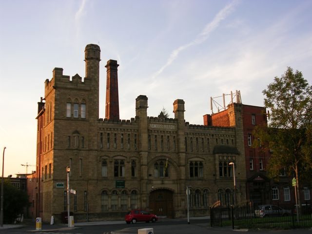 The Barracks. Ardwick Green Barracks. A Territorial Army centre for the Kings and Cheshire Regiment. SJ851972